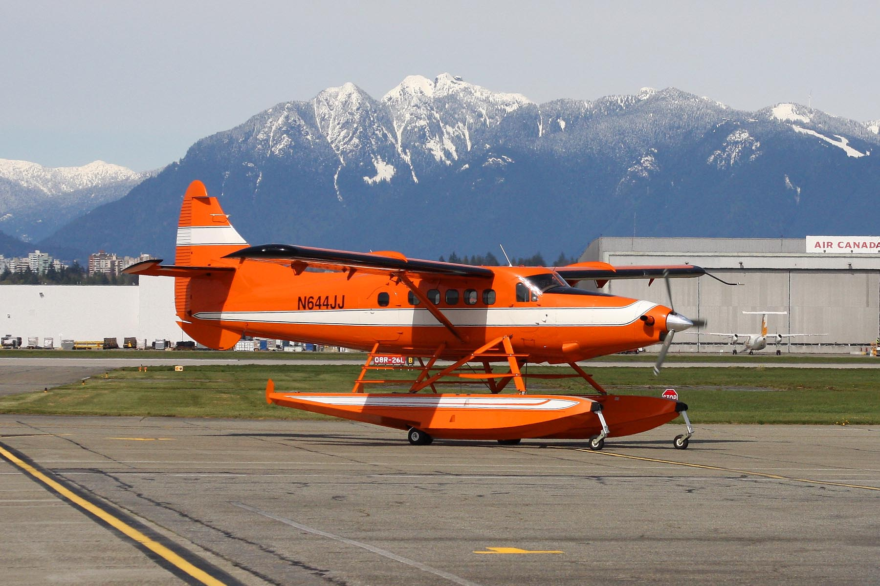 Classic photo from Vancouver with the north shore mountain background